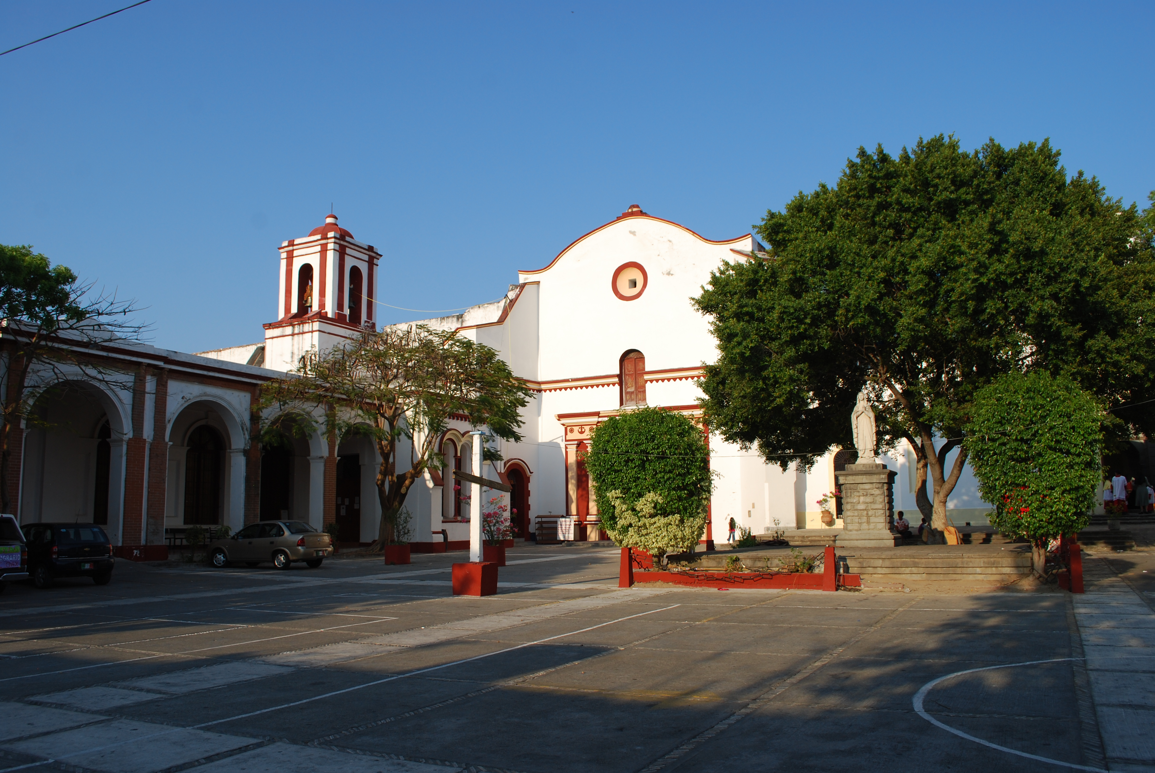 Older church at the cathedral complex in Santo Domingo Tehuantepec, Oaxaca, Mexico